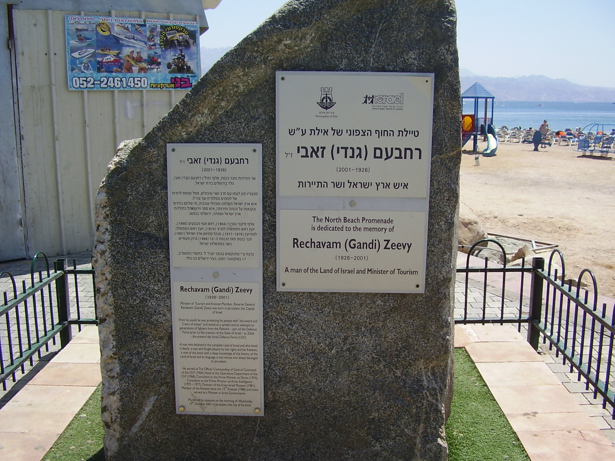 rechavam zeevy promende in the north beach in eilat